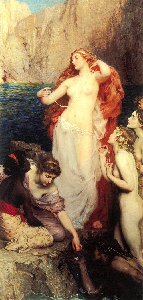 "The Pearls of Aphrodite", oil on canvas.